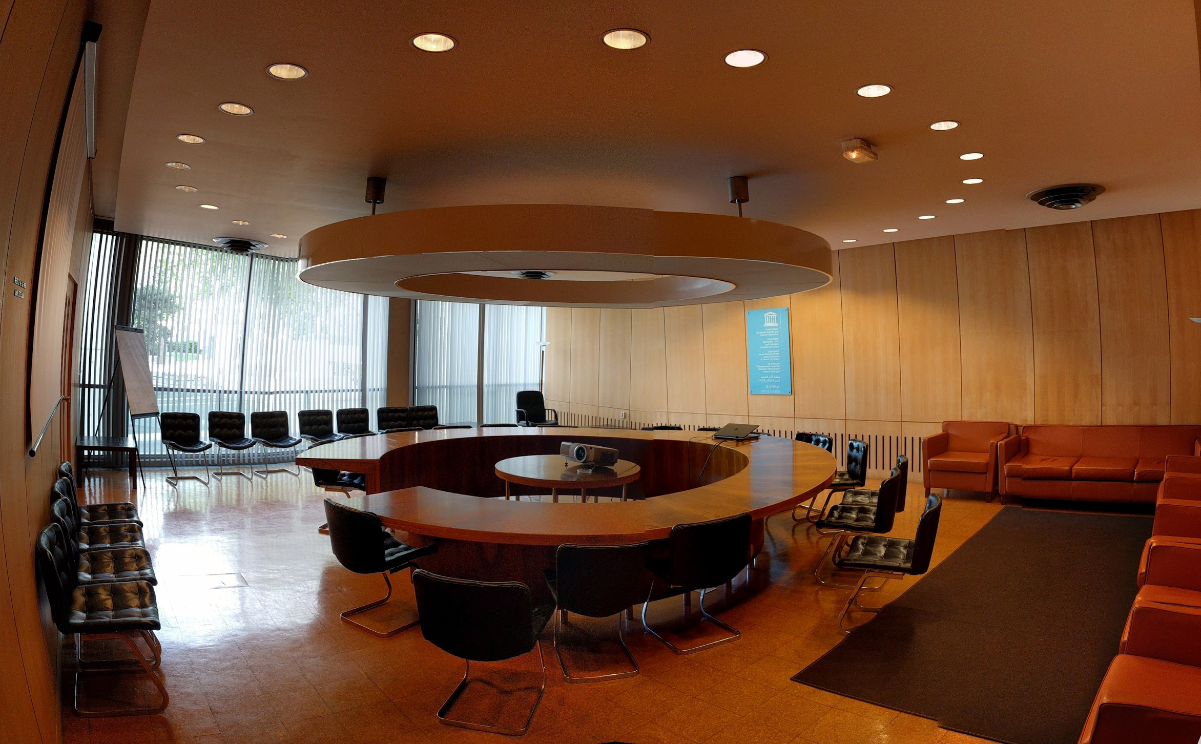 Room V at UNESCO HQ in Paris, venue of the 2017 European GLAM Coordinators meeting